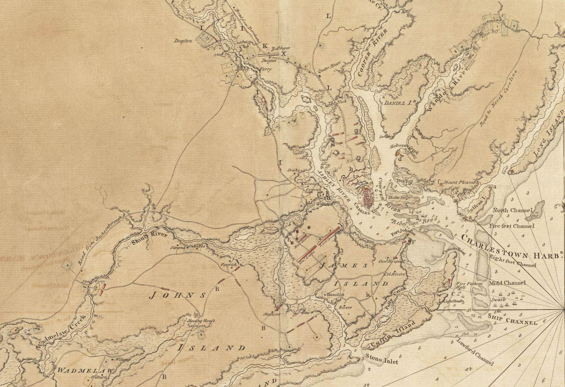 This is a detail of the source map, showing the port of Charleston, South Carolina and the coastline to the south as far as Johns Island. It has markings depicting Continental Army defenses set up in anticipation of British attack. The map was probably drawn by British engineers around the time of the 1780 Siege of Charleston.